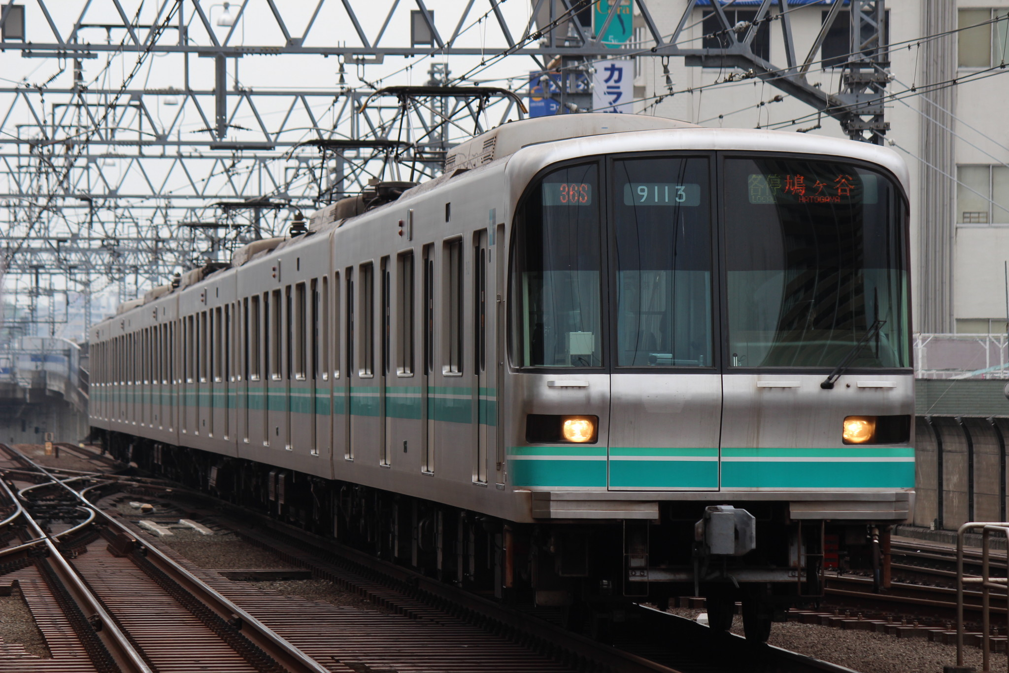 Tokyo Metro 9000 series EMU set 9113 on a Namboku Line service